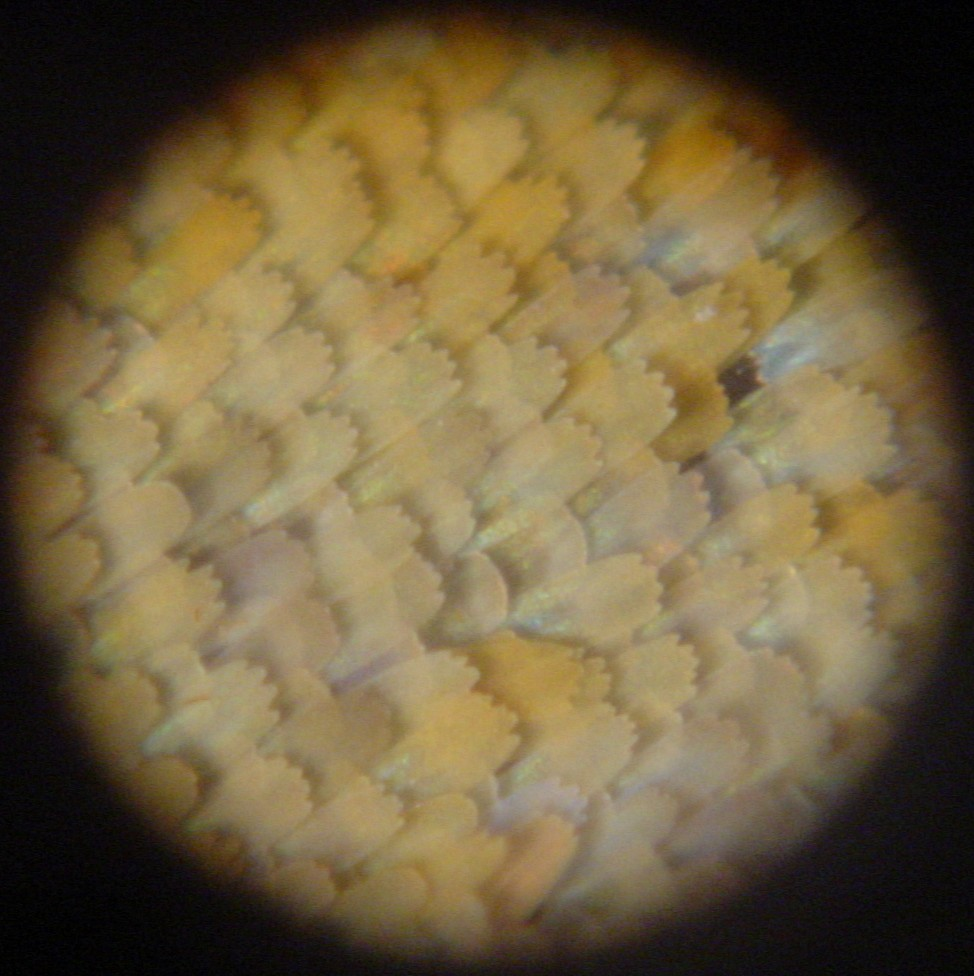 Description: Butterfly wing, white-yellow part, scales Author, date of creation: selfmade by Shaddack, 22 October 2005 Source: self-made Copyright: GFDL Comments: Microphotography from a homemade rig